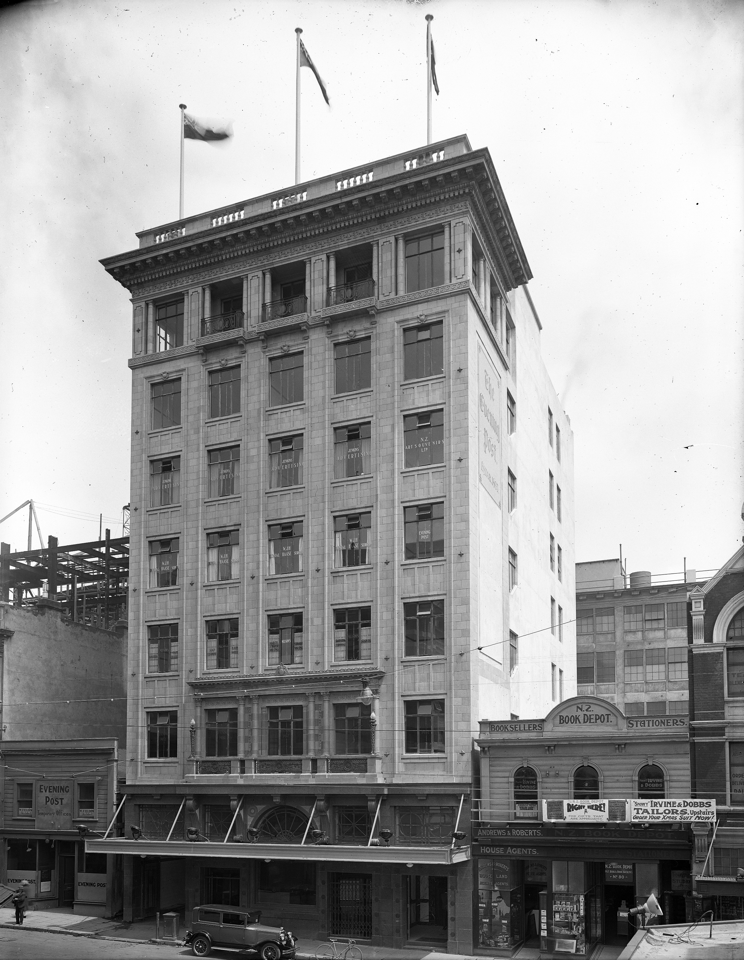 Photographer: William Hall Raine Evening Post building, Willis Street, Wellington, New Zealand 1928 Reference number: 1/1-018055 Original negative Photographic Archive, Alexander Turnbull Library The image online at the Photographic Archive, Alexander Turnbull Library